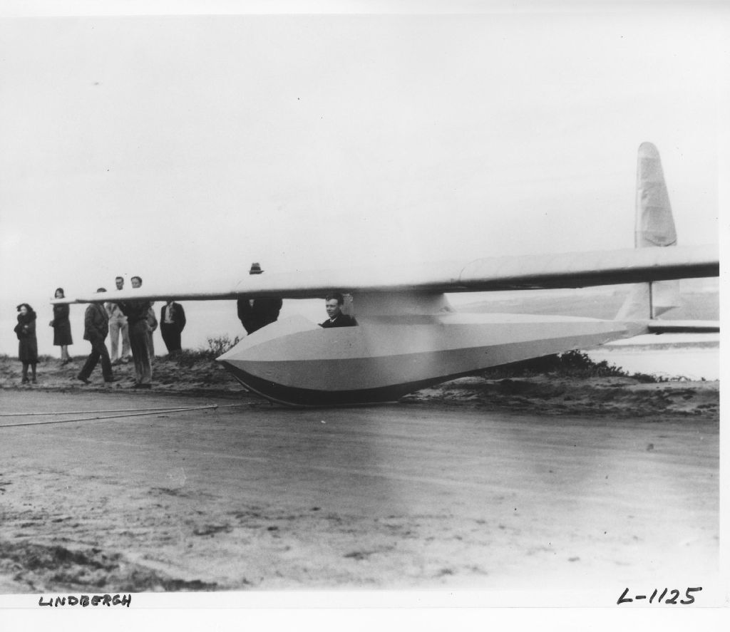 Charles Lindbergh readying to fly the Bowlus SP-1 Paper Wing